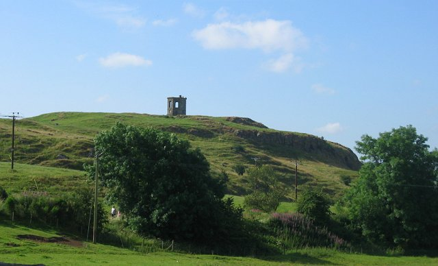 Temple. 18th century folly on Kenmure Hill. According to the interpretation board on the disused railway which passes close by, this is a folly possibly built as a deer look out post on the Castle Semple Estate in 1760.